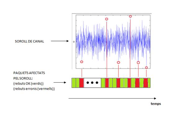 How noise affects to data units